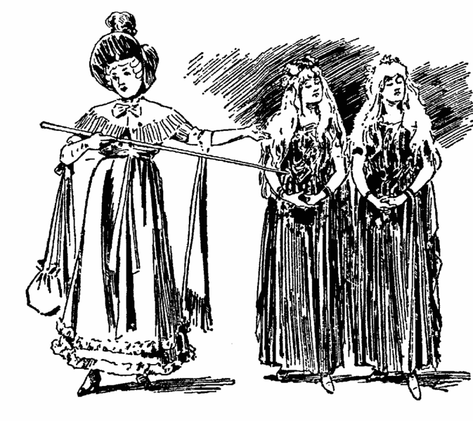 Image taken from